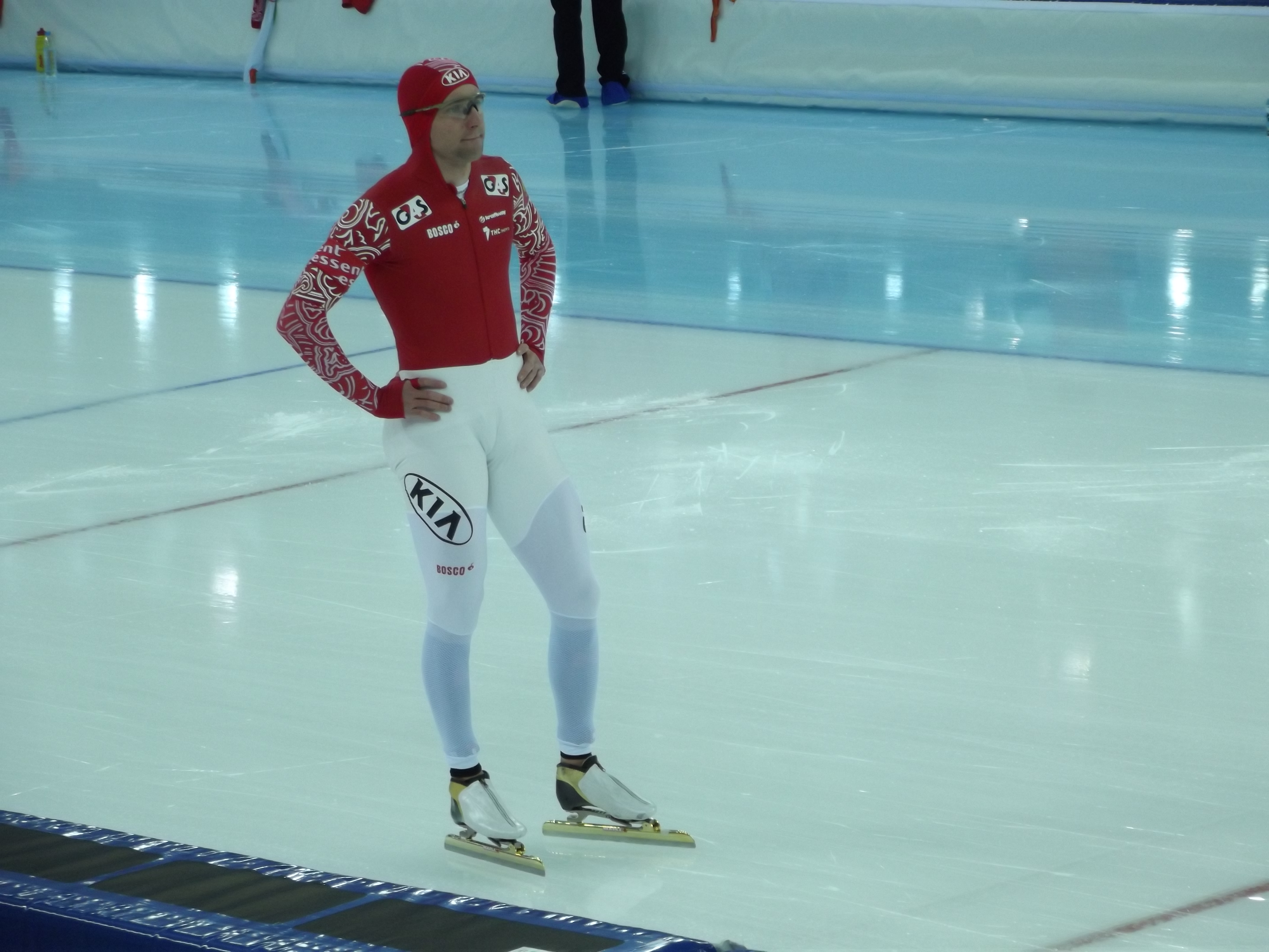 2013 World Single Distance Speed Skating Championships